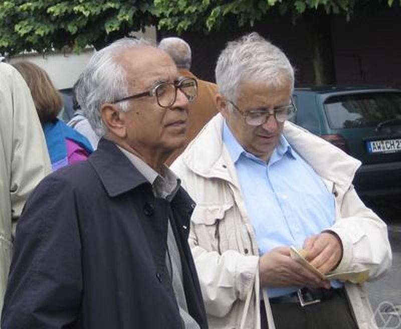 M. S. Narasimhan (left) with Grigorij Margulis, boat trip to Remagen 25.6.2007